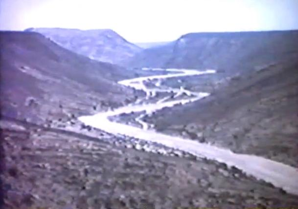 Assamo Valley in 1967 and on the left is Djibouti and on the right is Ethiopia